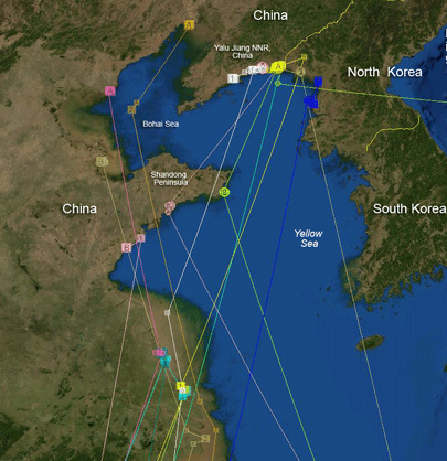 Migration path of Bar-tailed Godwit across the Yellow sea